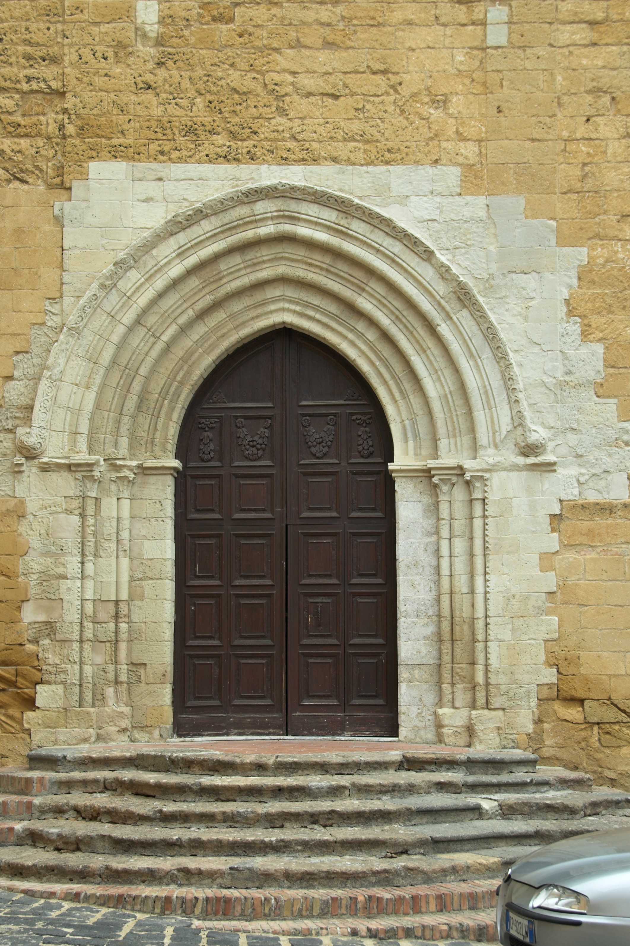 Church di Santo Spirito, portal, ca 1290, Agrigento.